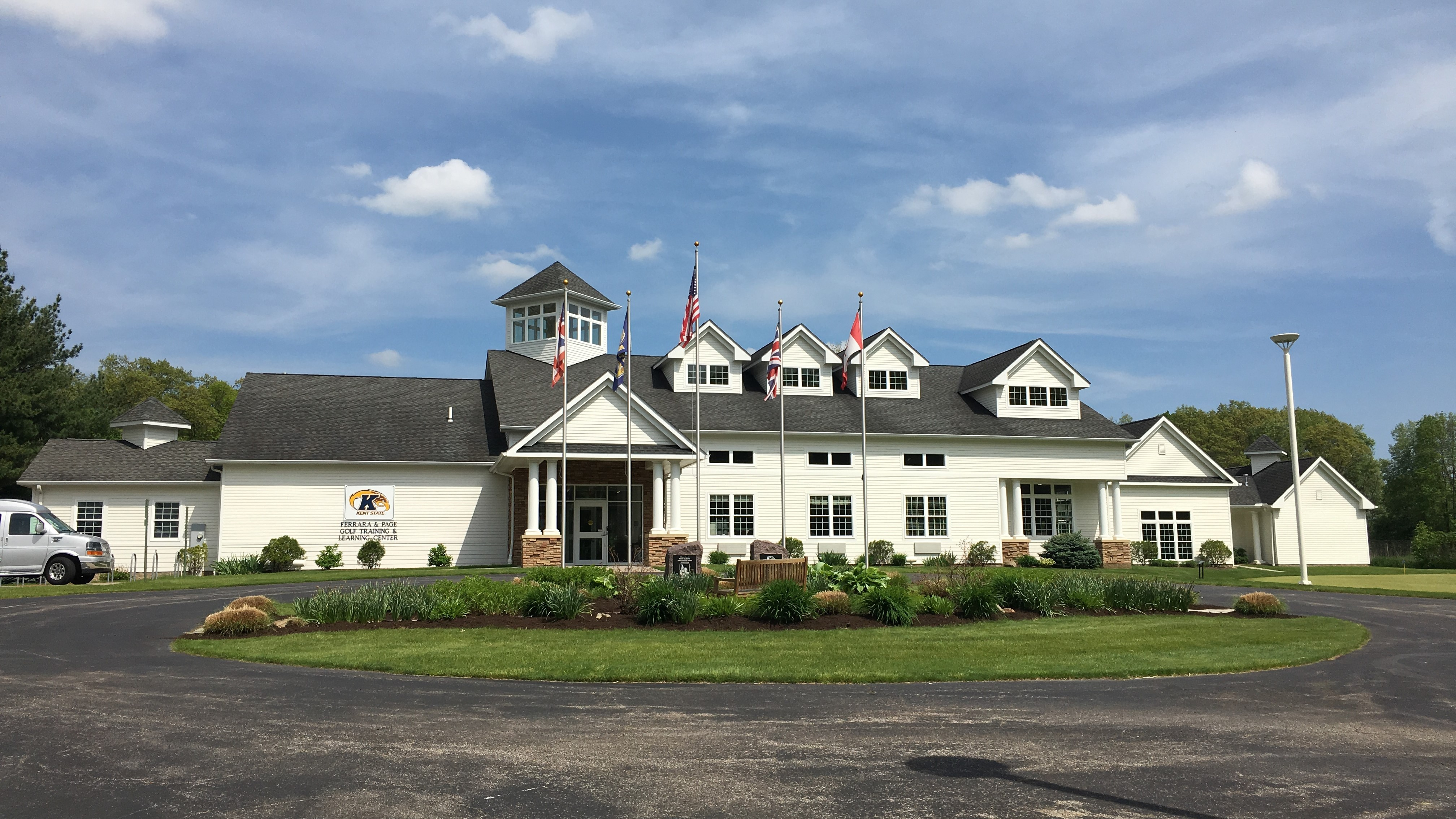 Front (west) facade of the Ferra and Page Golf Training and Learning Center near Kent, Ohio, the home training facility for the Kent State Golden Flashes men's golf and Kent State Golden Flashes women's golf teams.